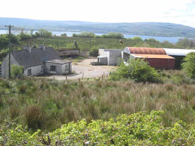 Farm at Cornashamsoge. Seen from the Kingfisher Cycle Trail (National Cycle Network route 91) the first cycle trail established in Ireland which here runs along but high above Lough Allen.